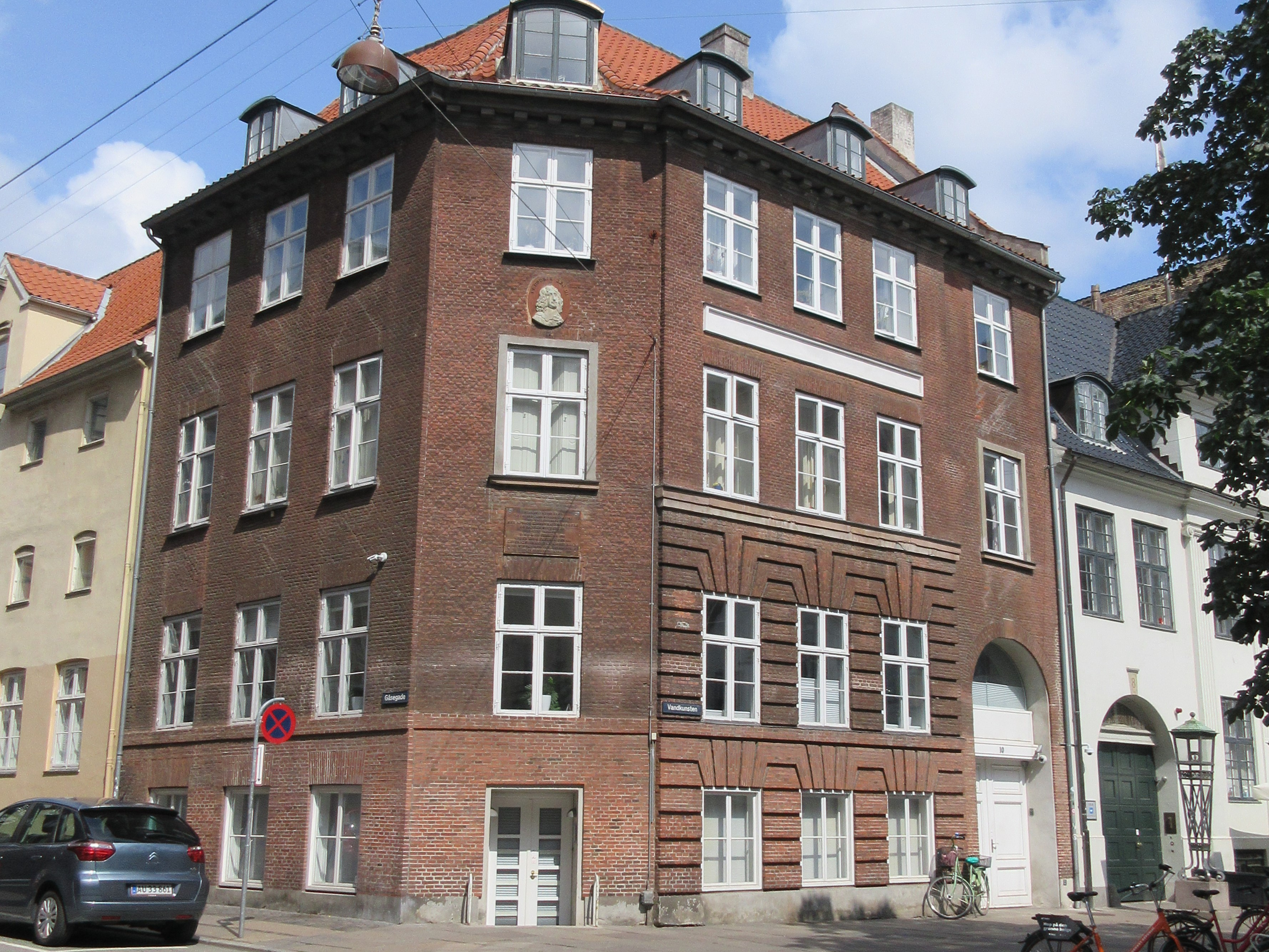 Ordings Gård in Copenhagen, Denmark